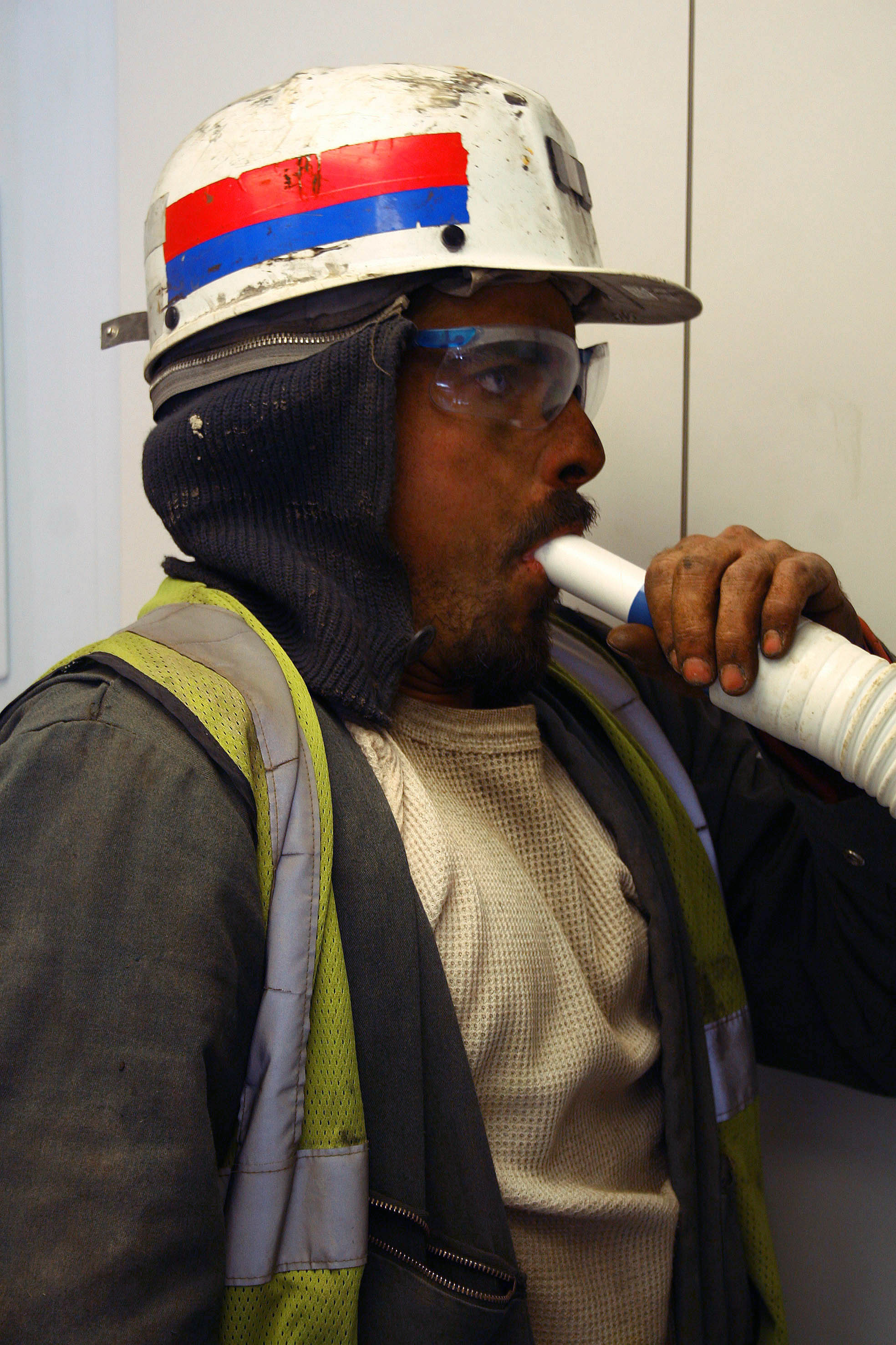 A coal miner using spirometry to test his lung function